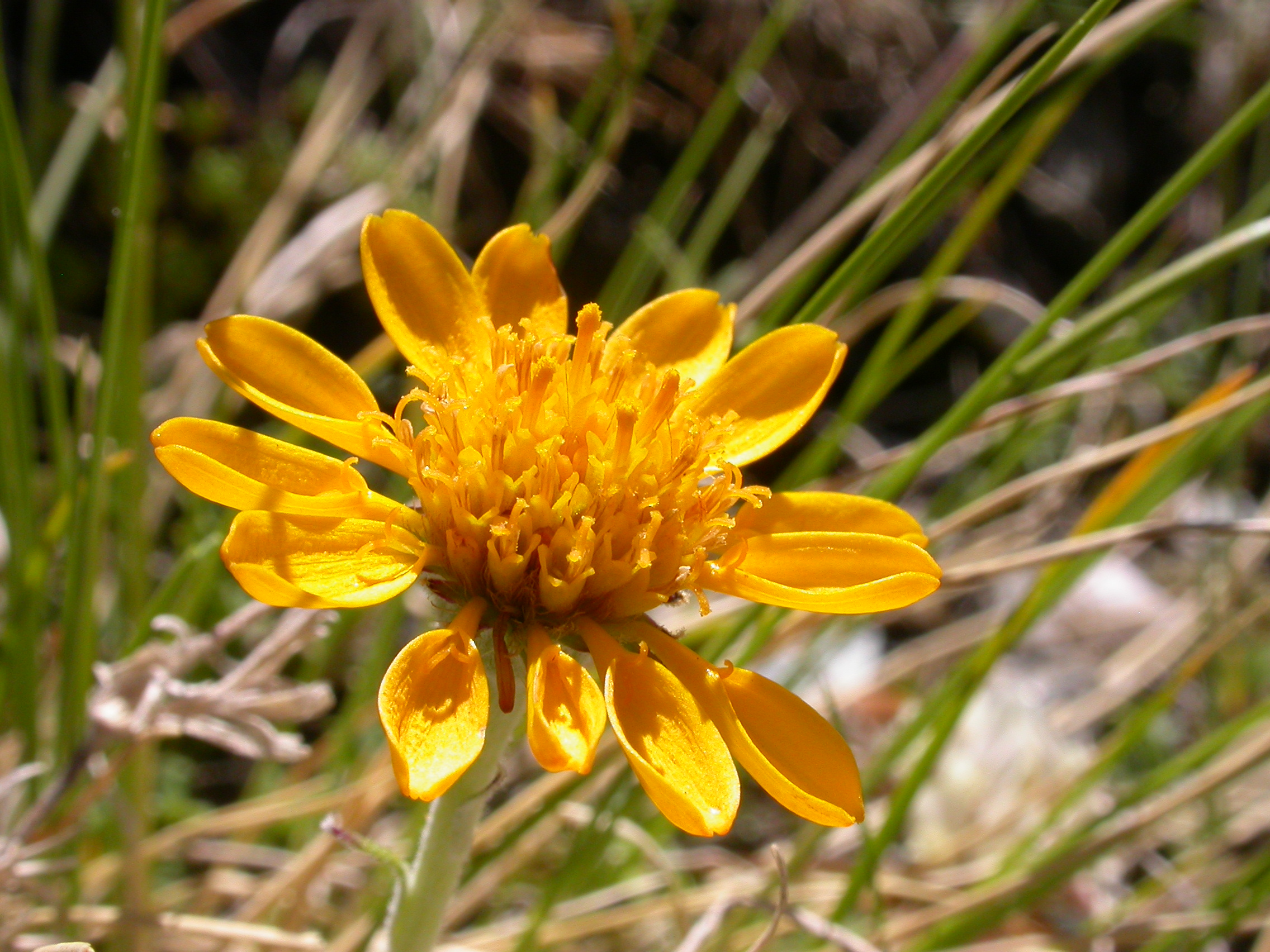 Senecio halleri Zermatt, Riffelberg (Kanton Wallis, Switzerland), 2500 m Author: Barbara Studer – own photograph Date: 2.08.06